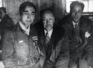 Chae_Myund-shin and Byun-Yeong-lo in 1953